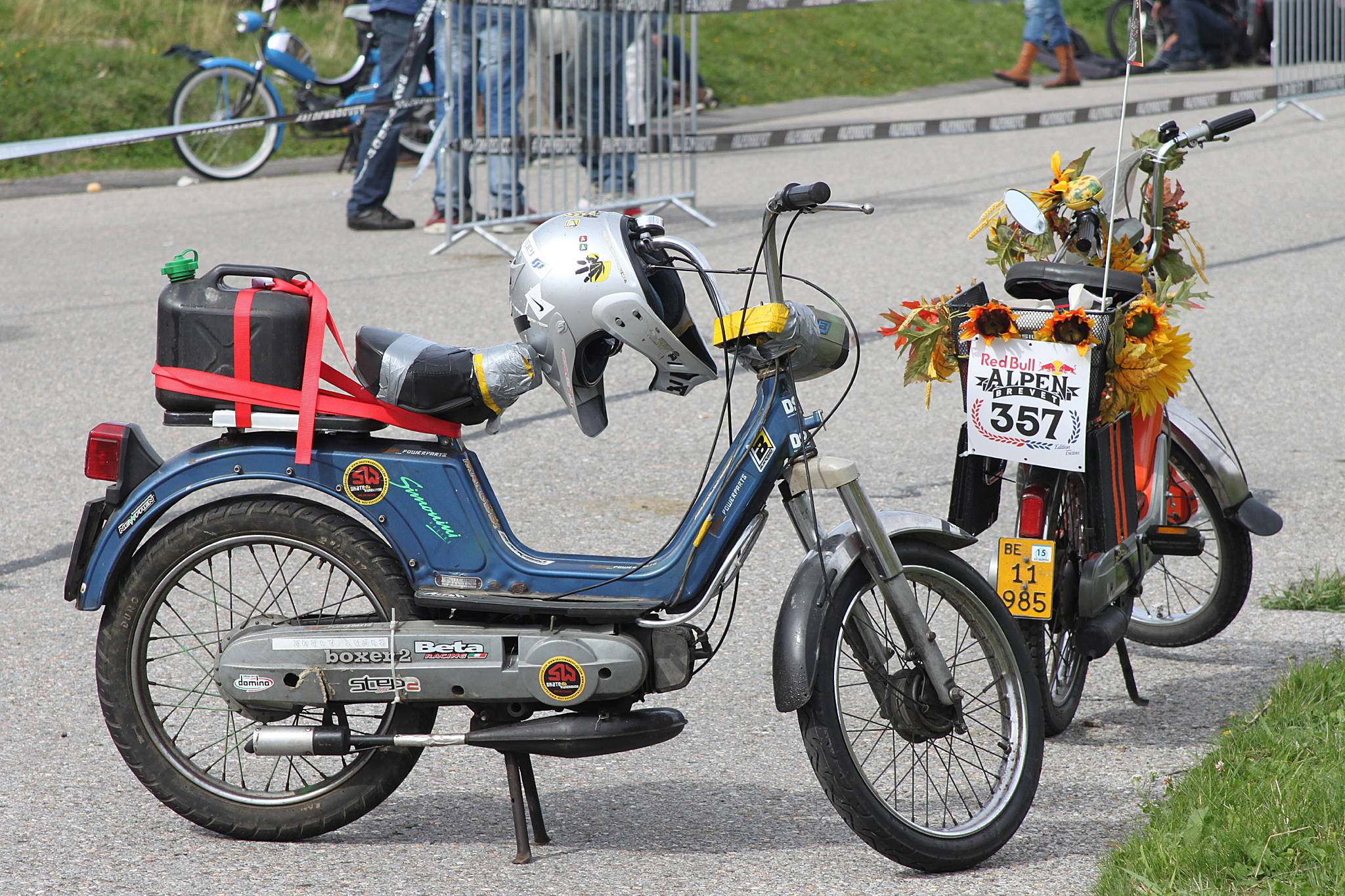 Piaggio Boxer 2 at Alpe di Neggia during "Red Bull Alpenbrevet 2015".